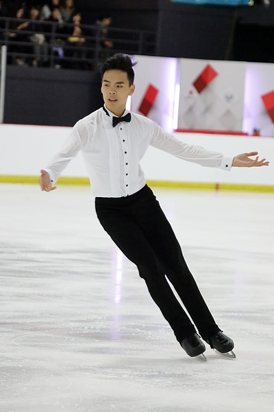 Nam Nguyen at the 2017 Autumn Classic.